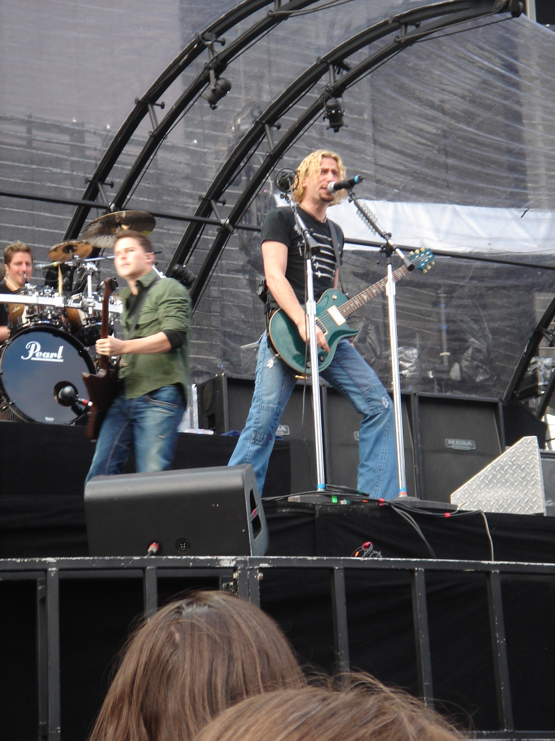 Chad Kroeger on stage with Nickelback in Dublin May 2006